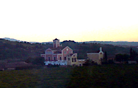 Ca n'Amat in Castellví de Rosanes, Baix Llobregat, Catalonia